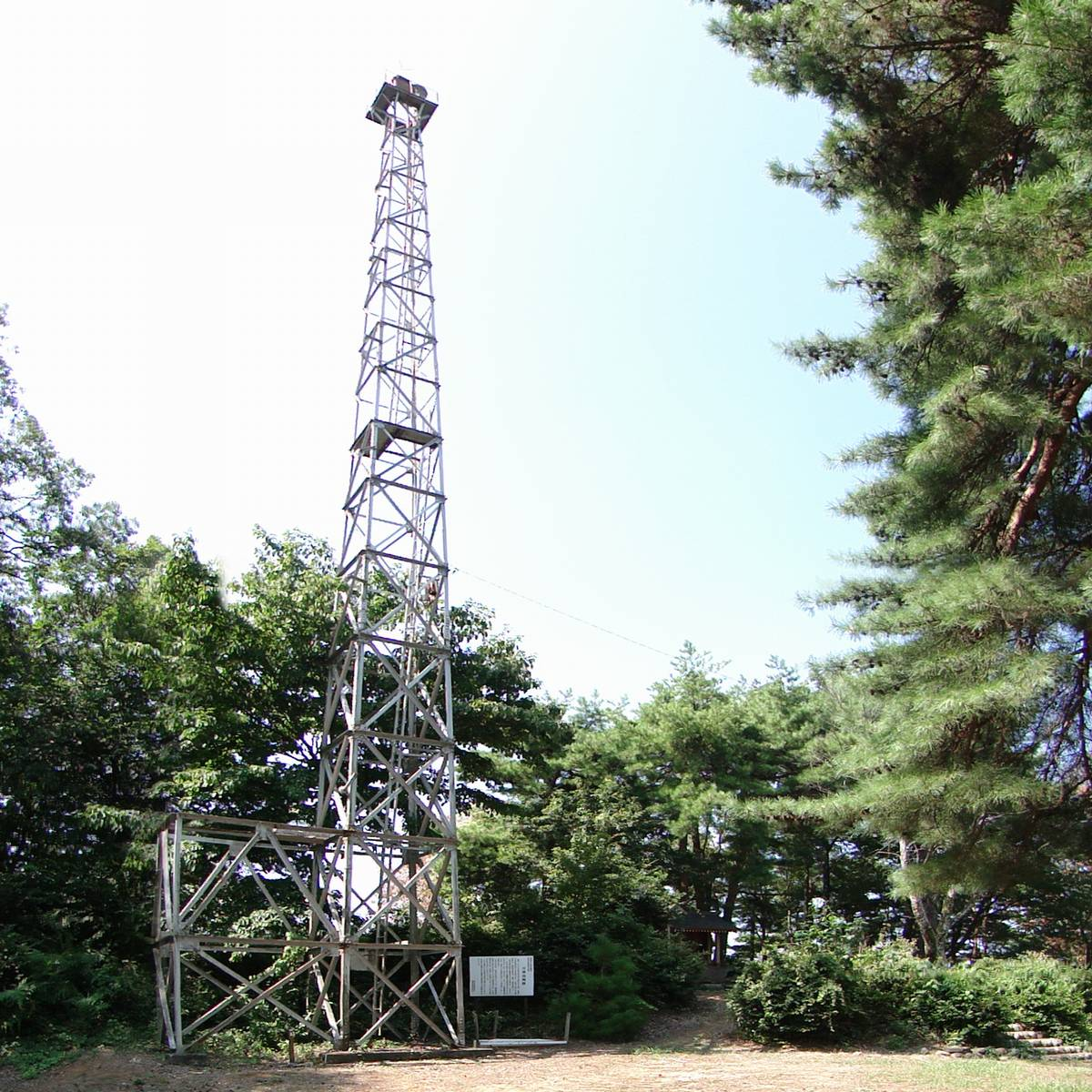 Tenjinyama top